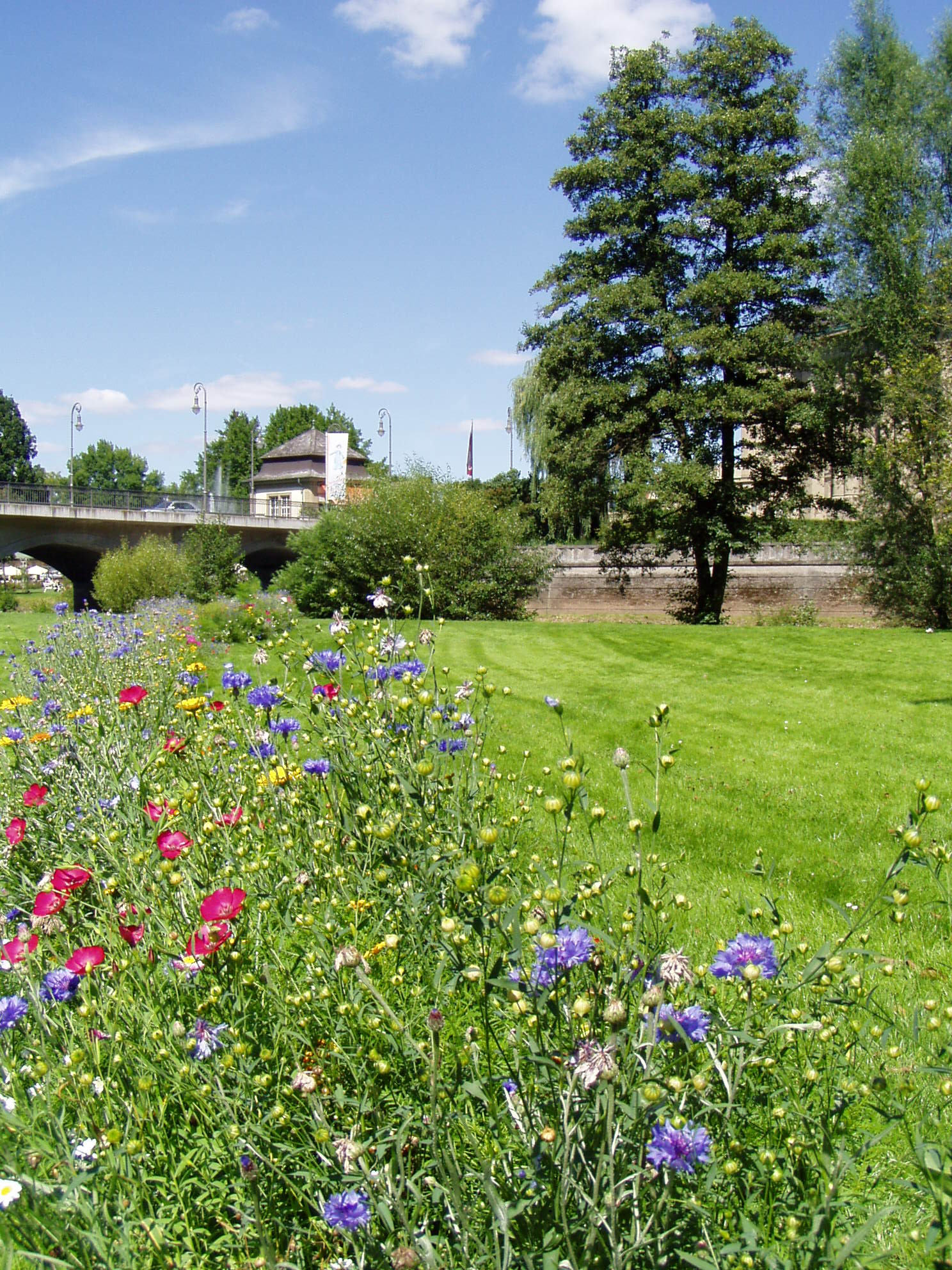 Line of flowers, Park of Bad Kissingen, Bavaria (Germany)